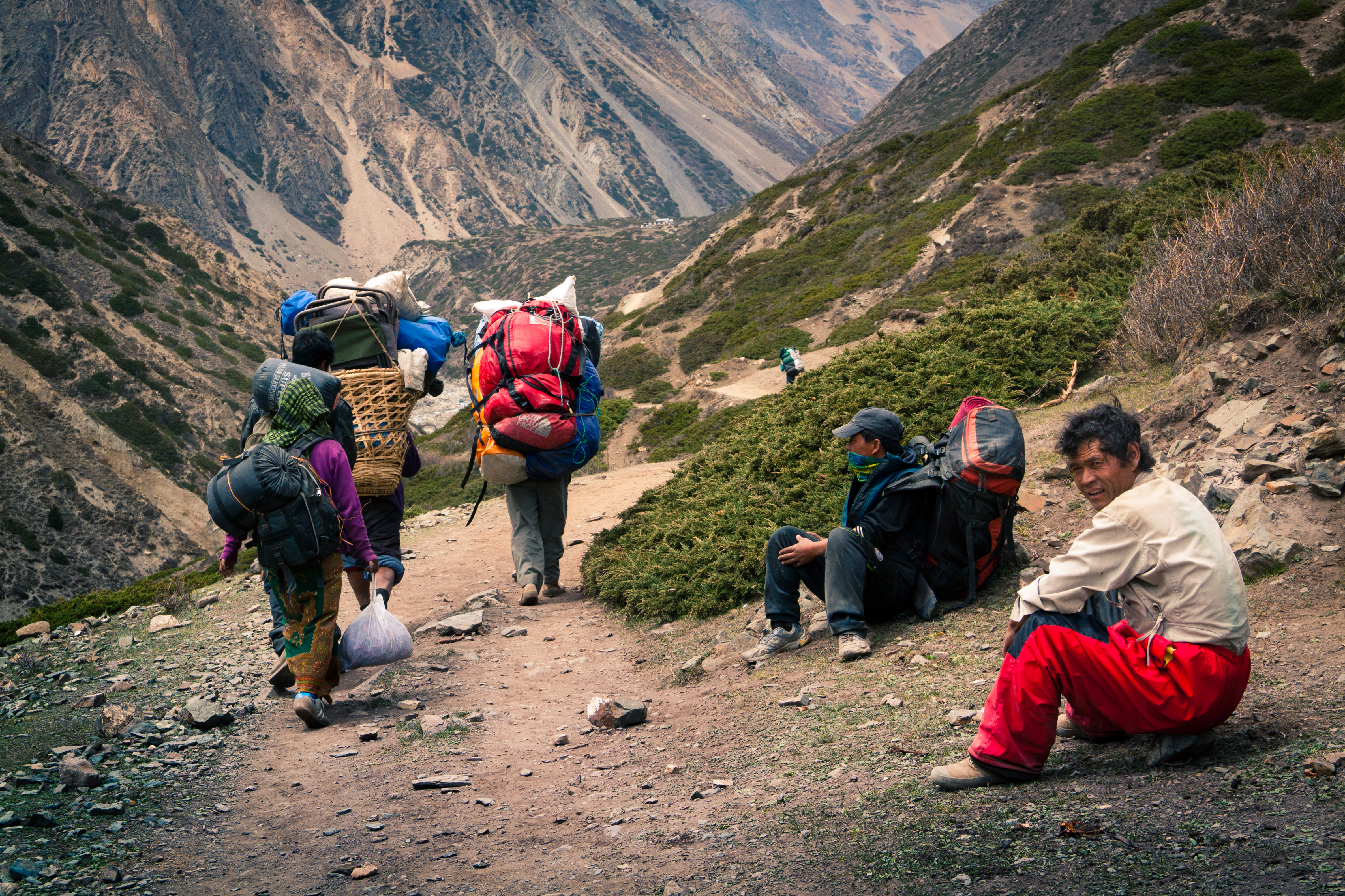 Nepali porters at Annapurna Circuit near Yak Kharka